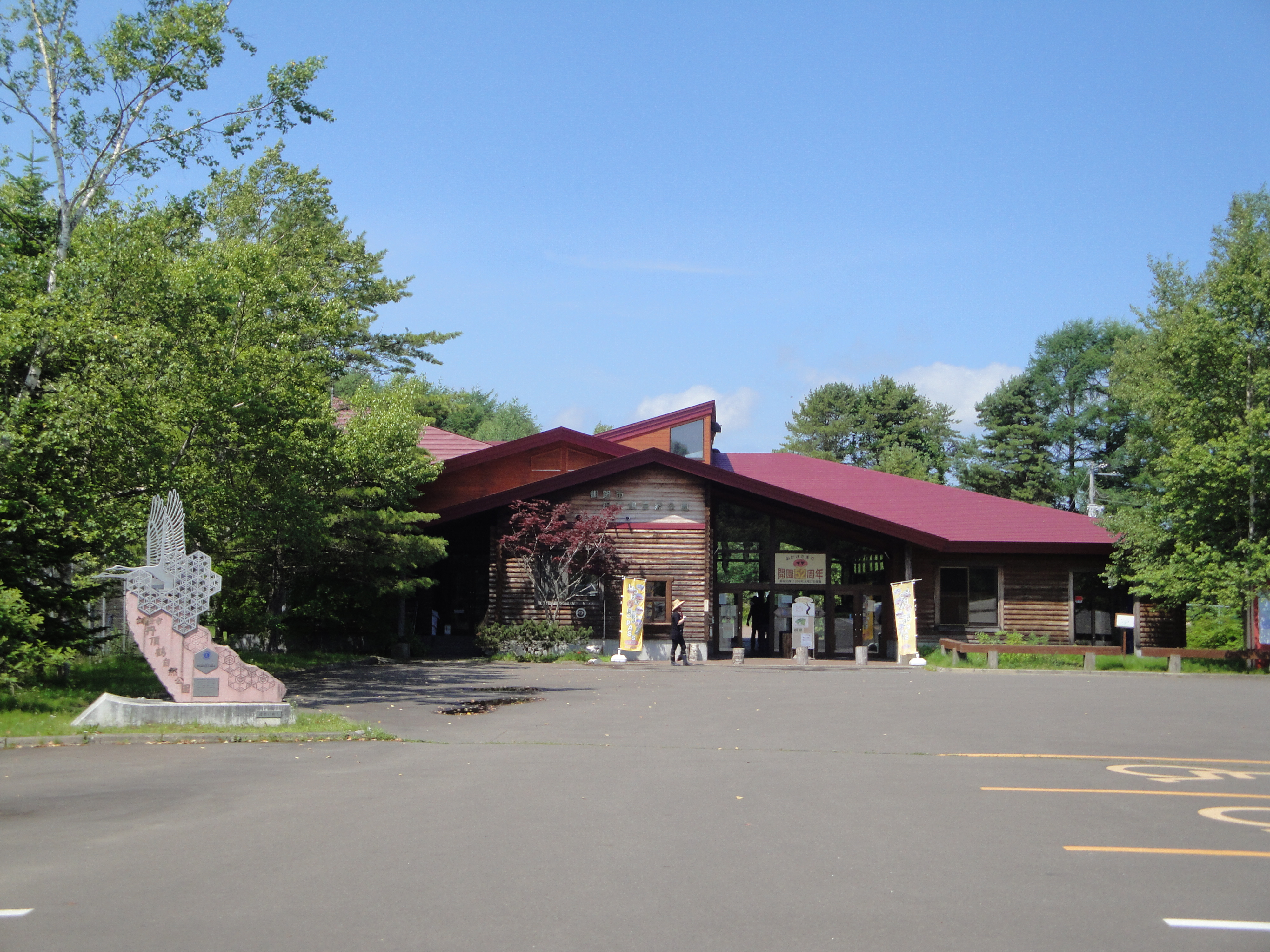 Entrance of Japan Crane Reserve in Kushiro, Hokkaido, Japan.